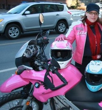 Lia Grimanis and her pink BMW motorcycle